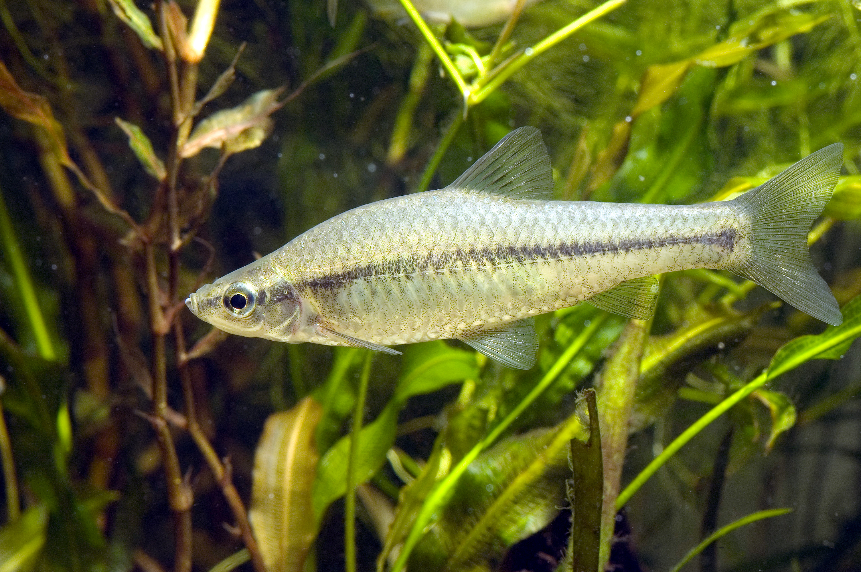 Motsugo(Stone moroko), Pseudorasbora parva, Collected from Hamamatsu, Shizuoka, Japan and took a picture in an aquarium.